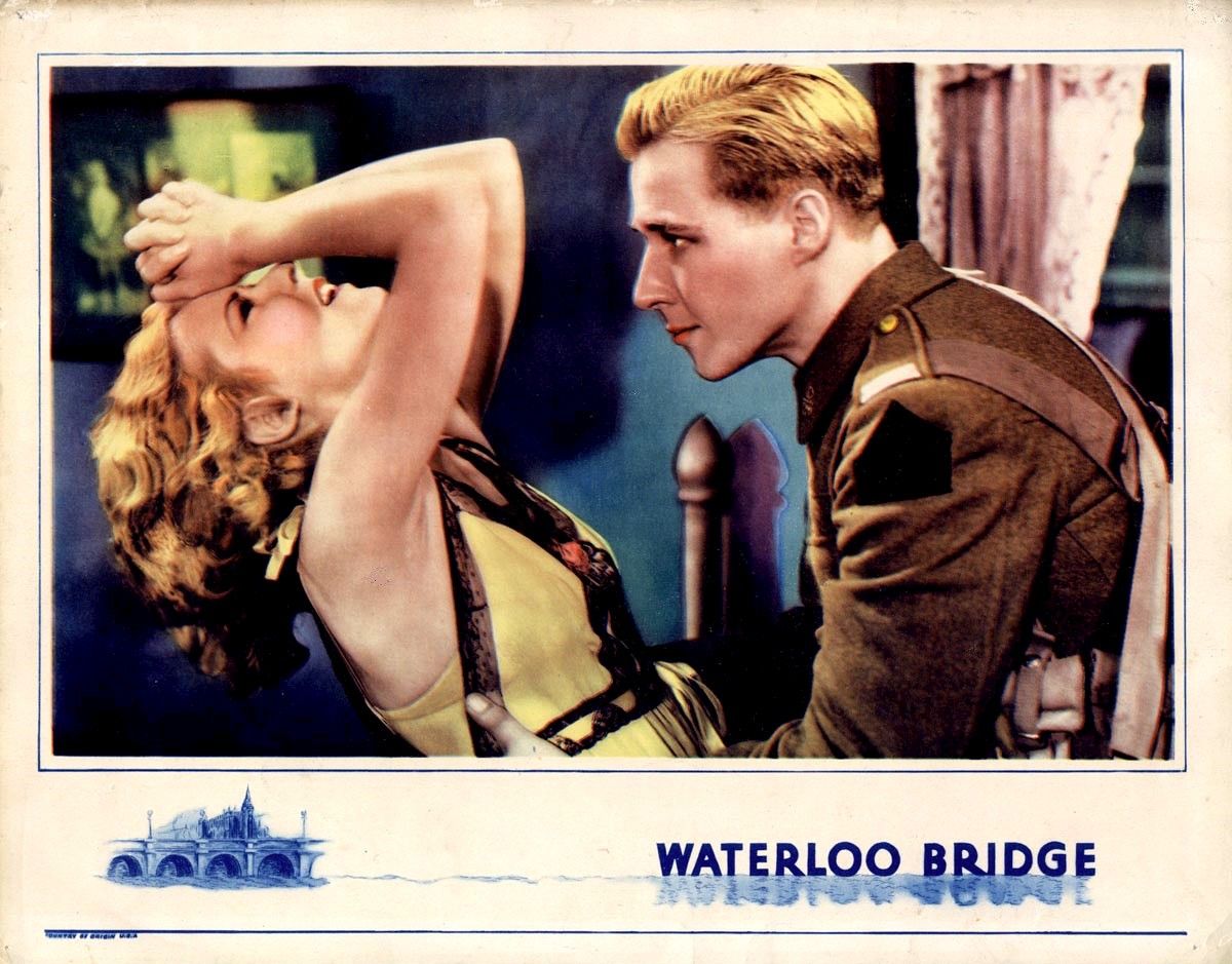 Lobby card for the 1931 film Waterloo Bridge with Mae Clarke and Douglass Montgomery.